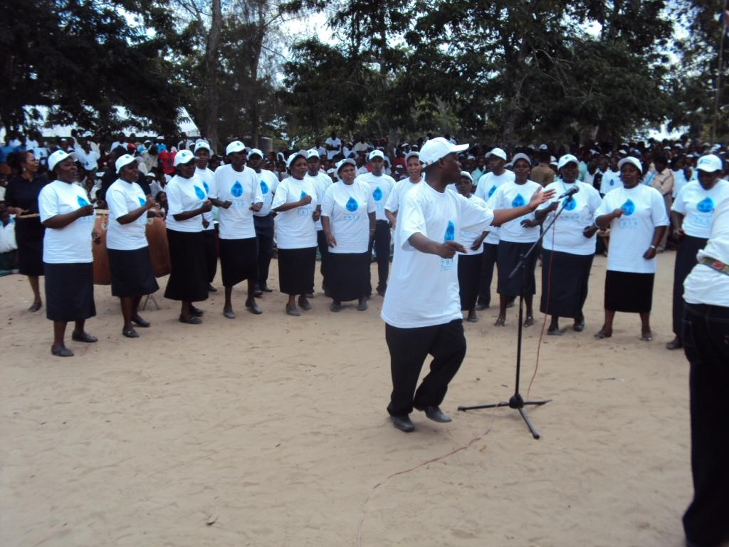 Several events and performances marked the occasion like this choir